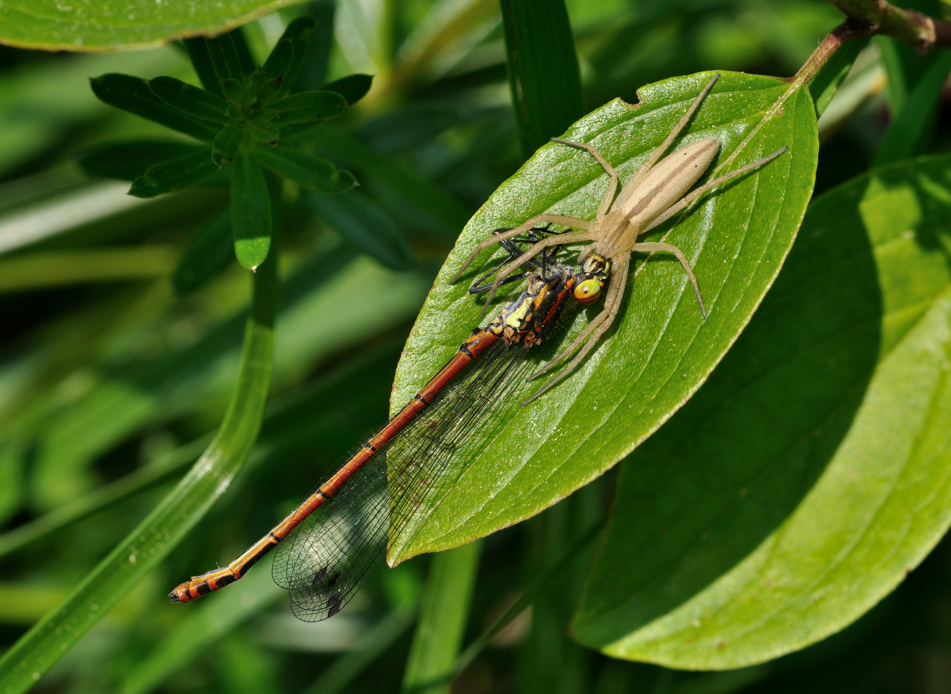 A female Running Crab Spider (Tibellus oblongus) captures a male Large Red Damselfly (Pyrrhosoma nymphula) near the old airstrip, Frankfurt, Germany.